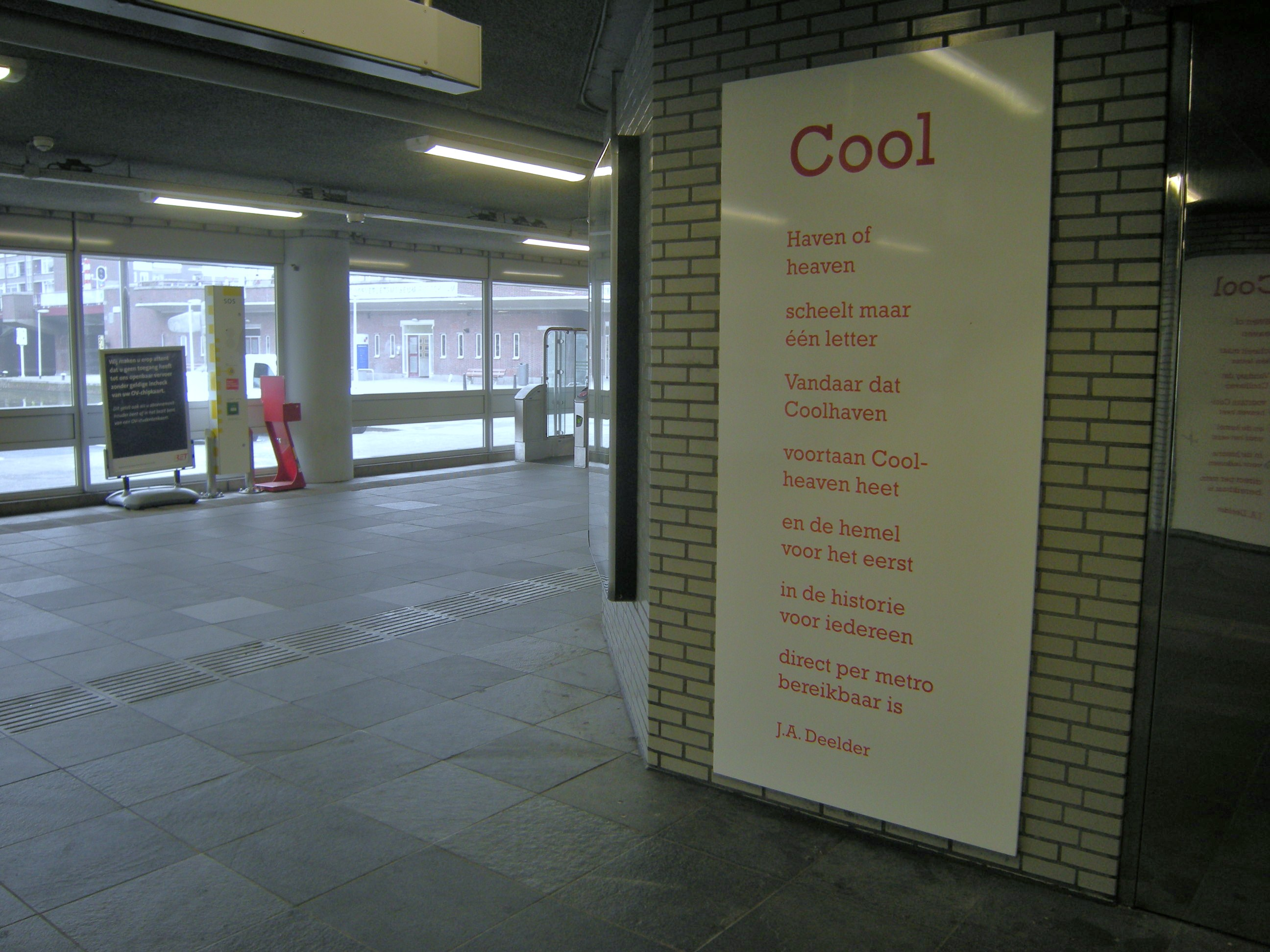 Poem of Jules Deelder at metro station Coolhaven, Rotterdam, the Netherlands.